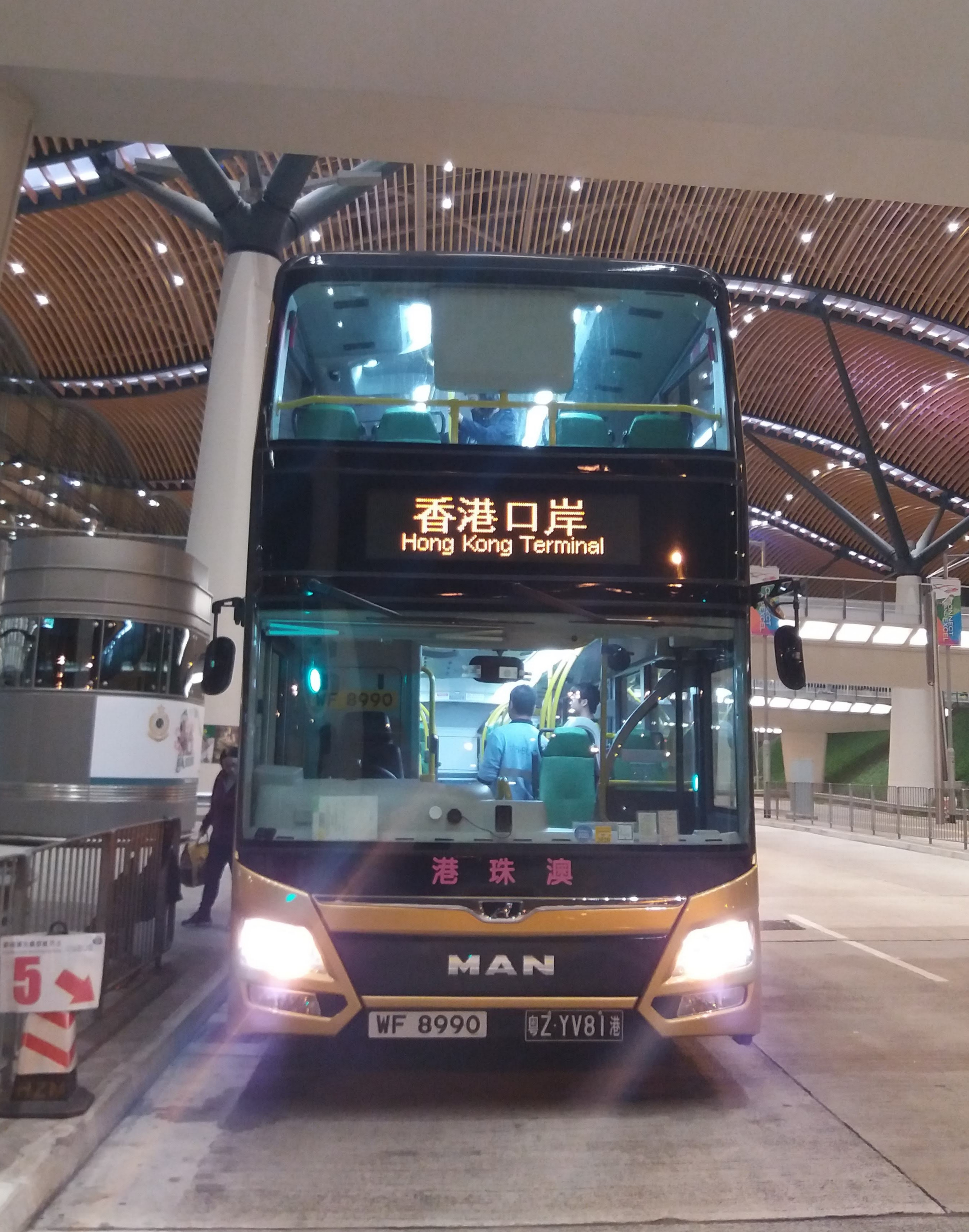 Photos taken on 24 December, 2019, during trip to Macau